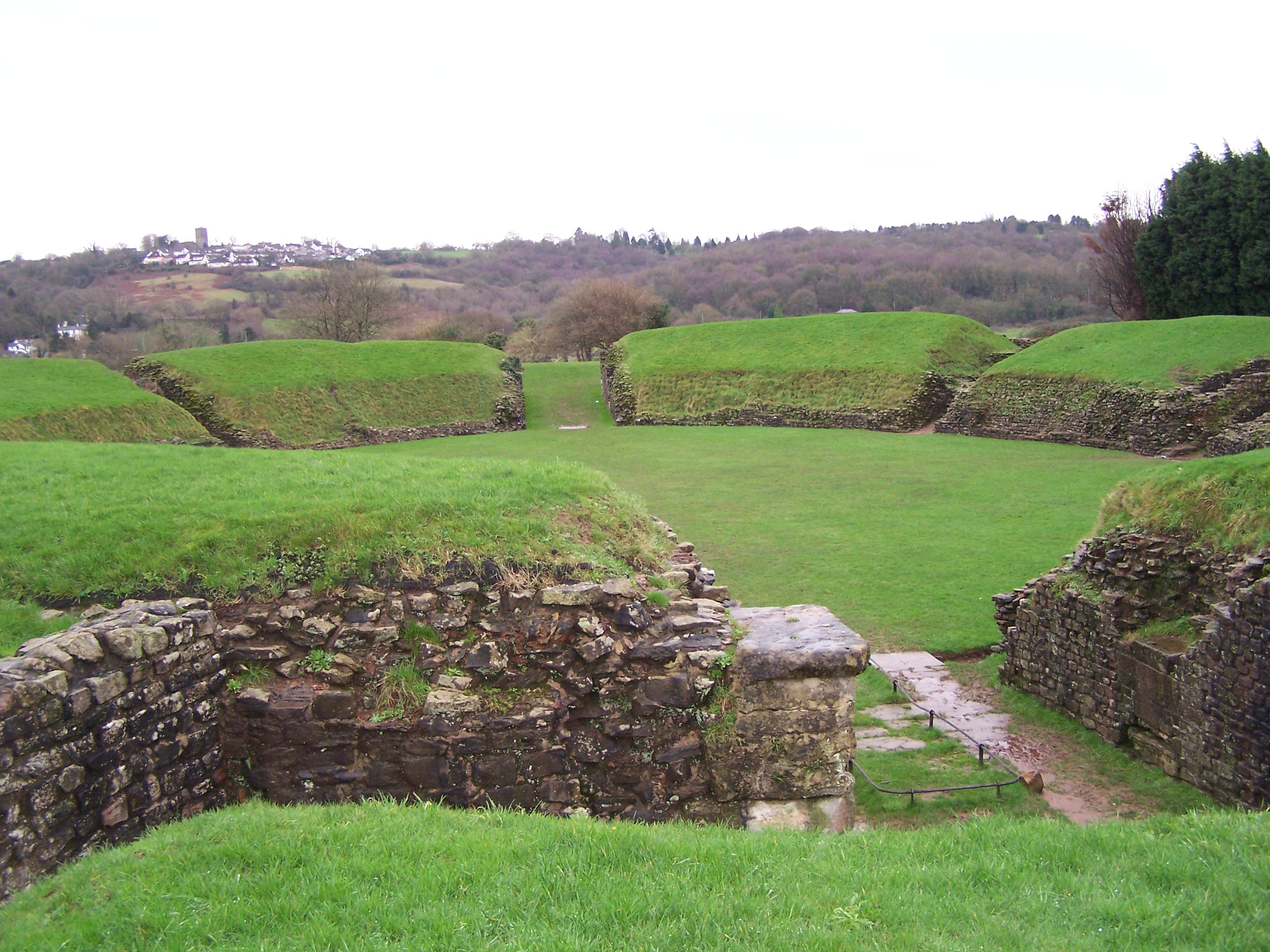 Photograph of the military amphitheatre at Caerleon.